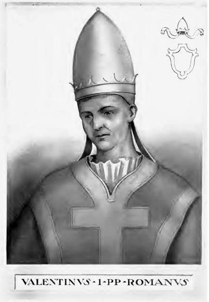 This illustration is from The Lives and Times of the Popes by Chevalier Artaud de Montor, New York: The Catholic Publication Society of America, 1911. It was originally published in 1842.